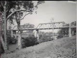 1901 railway bridge over the Gwyder River near Gravesend, NSW